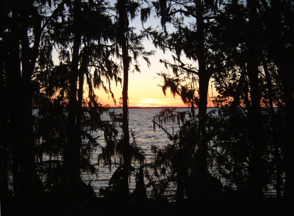 Sunset on the St. Johns River near former ferry crossings Tocoi and Picolata, unincorporated areas in St. Johns County